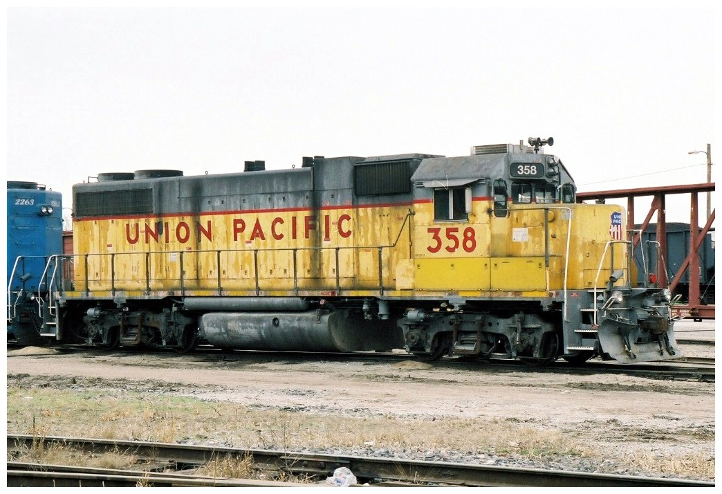 Union Pacific Railroad #358, EMD GP38-2 [1]